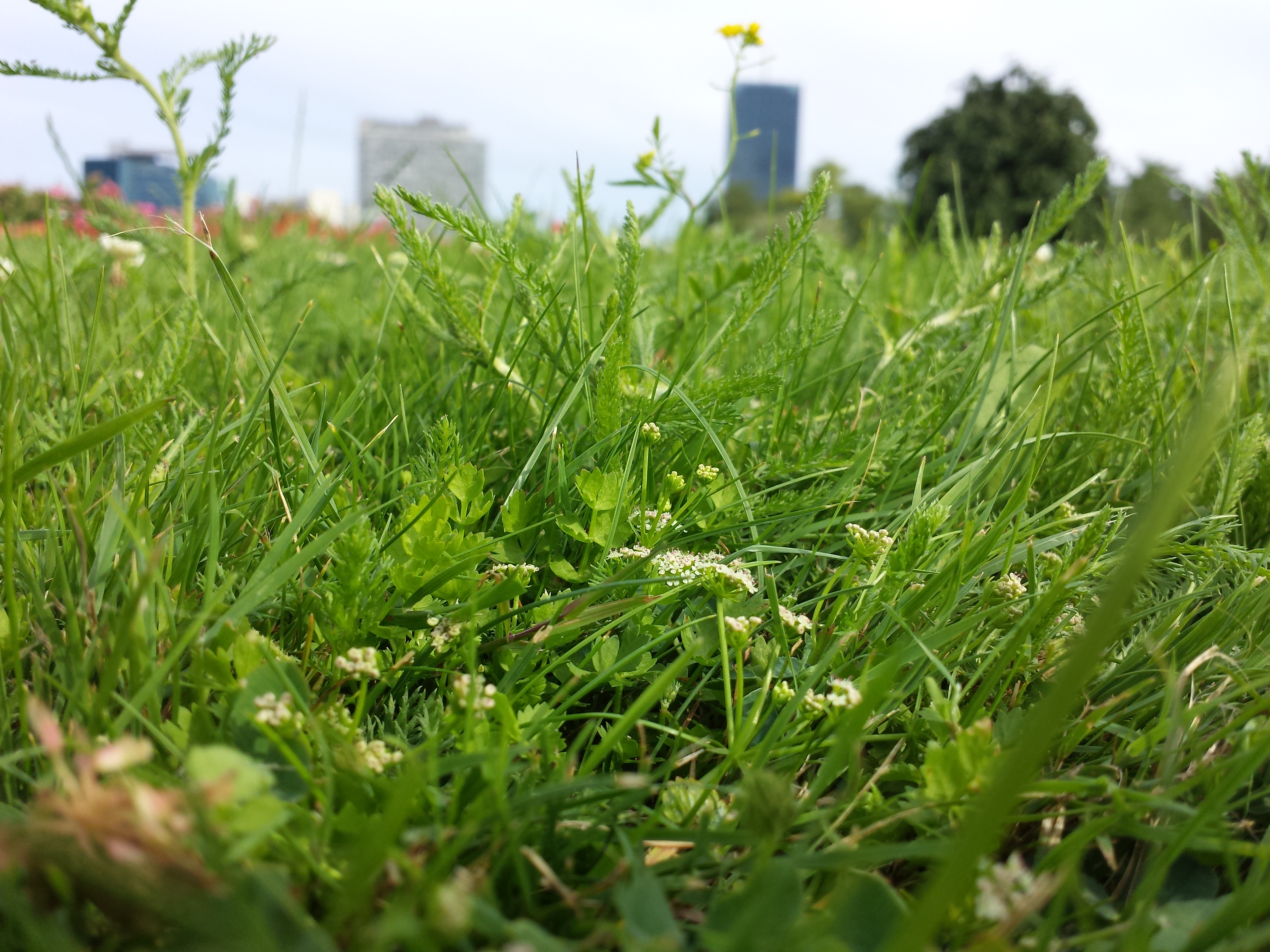 Habitat Taxonym: Helosciadium repens ss Fischer et al. EfÖLS 2008 ISBN 978-3-85474-187-9 Location: Donaupark, Vienna-Donaustadt - ca. 160 m a.s.l. Habitat: turf